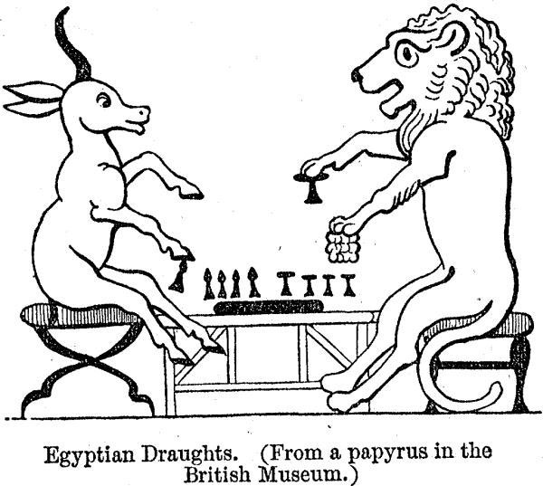 Egyptian Draughts, from a Papyrus in the British Museum. Illustration in Smith's Dictionary of Greek and Roman Antiquities, 1890.